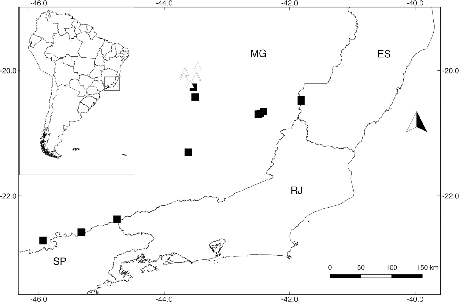 Map showing the distribution of Capsicum carassense (triangle) and C. mirabile (square) in south-eastern Brazil. Abbreviations. MG, Minas Gerais; ES, Espirito Santo; RJ, Rio de Janeiro; SP, São Paulo.